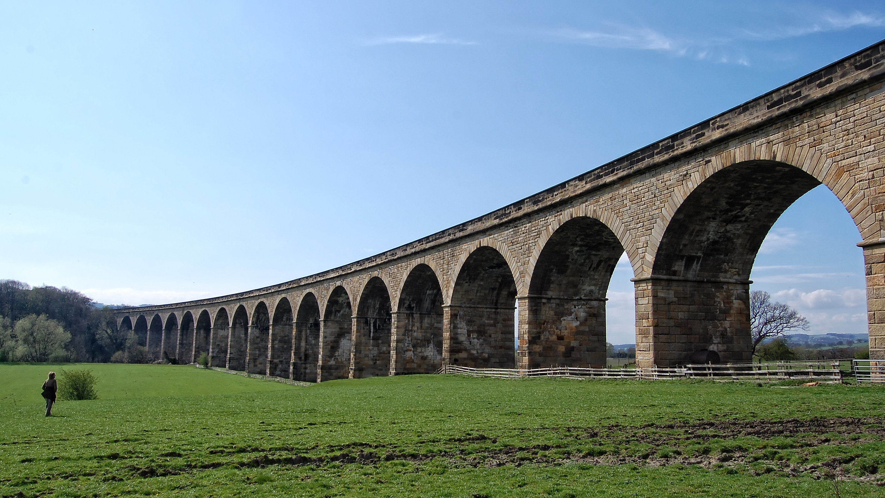 This is a panoramic shot of the Arthington Viaduct taken from the farmer's fields on the north side of the river Wharfe, just south of Castley in West Yorkshire. It is a sandstone 21-arch bridge spanning the Wharfe valley, engineered by James Bray for the Leeds and Thirsk Railway circa 1850. The structure of the viaduct is unelaborate but its simple geometry is breathtakingly beautiful. It is unusual in that it is built along a curved path.